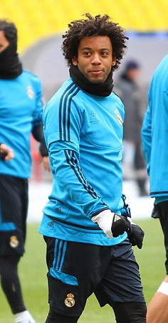 Marcelo Vieira